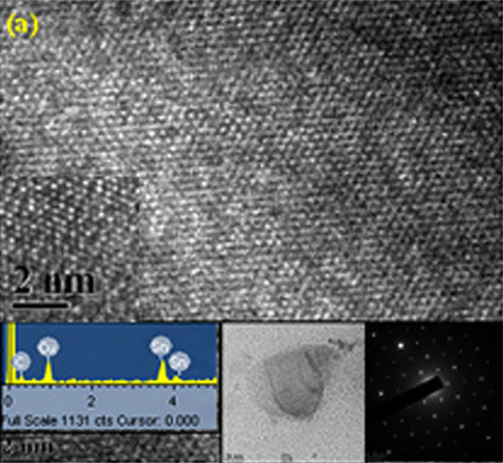 HRTEM image of sample showing hexagonal lattice. The inset on the bottom left shows the EDAX spectrum from the same spot. Carbon and copper peaks arises from the TEM grid used. The middle inset shows large area TEM of stanene flake with layers. The inset on the extreme right shows the hexagonal electron diffraction pattern obtained from the sample confirming the presence of hexagonal lattice.